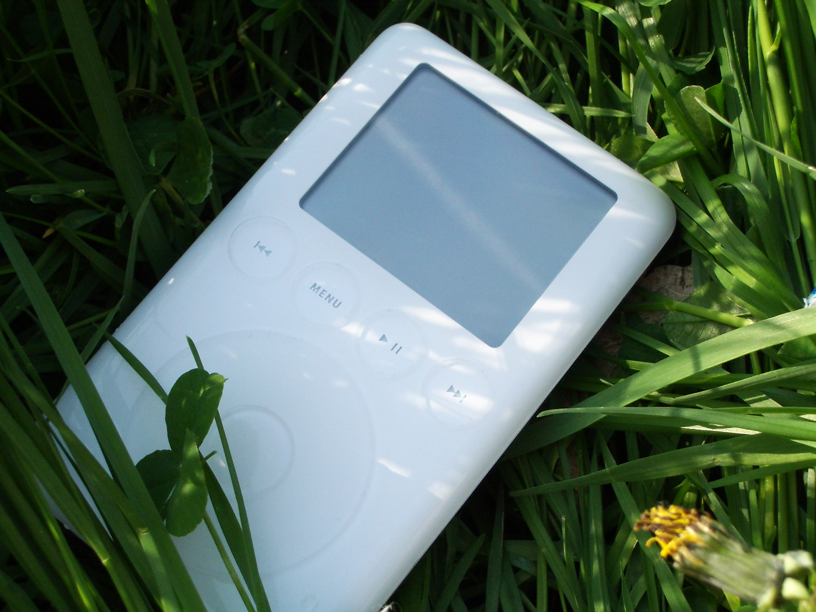 Third generation iPod.